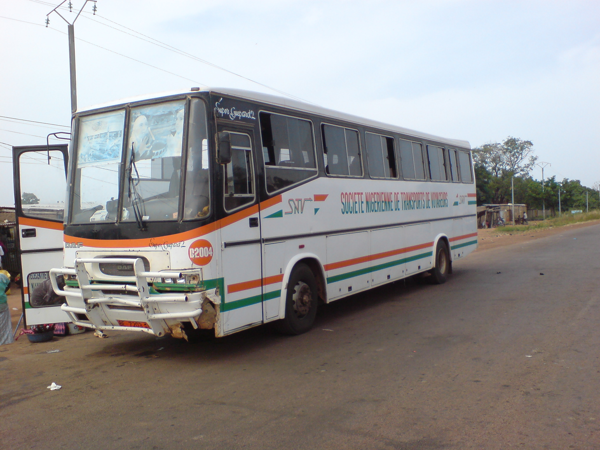 Sociéte Nigerienne de Transports de Voyageurs (SNTV) bus, travelling Ouagadougou, Burkina Faso-Niamey, Niger. DAF Super Guepard 2 bus.